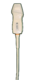 Phased Array Transducer for Sonography